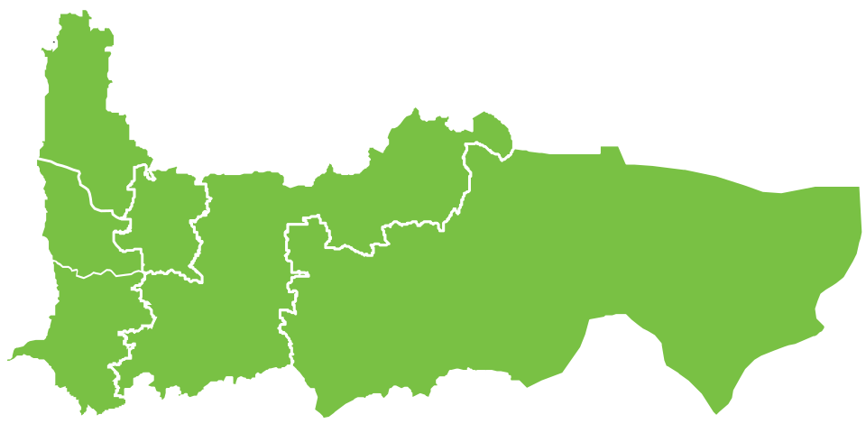 Blank map of Hama's districts.